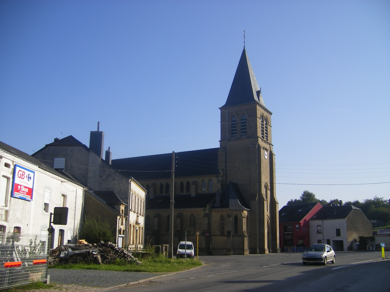 Church in Pin (Izel), municipality Chiny